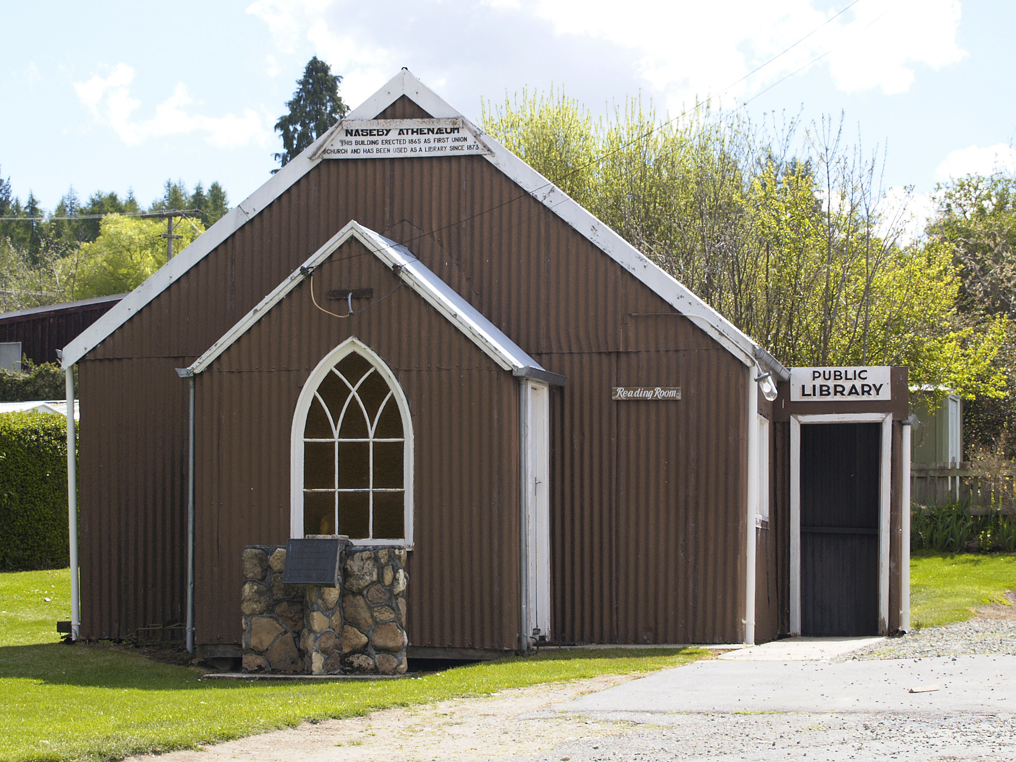 Athenaeum, Naseby, Central Otago District, Otago Region, South Island, New Zealand, (build 1865) - Historic Places with the NZHPT Category 1